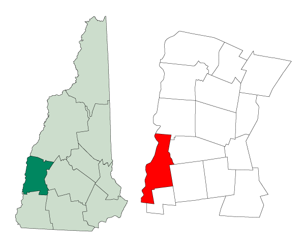 Map of a municipality in Sullivan County, New Hampshire